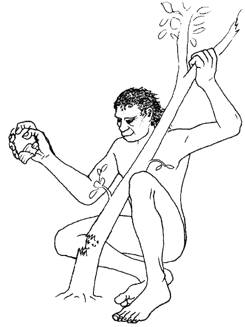 Hypothetic wear of a Chopper